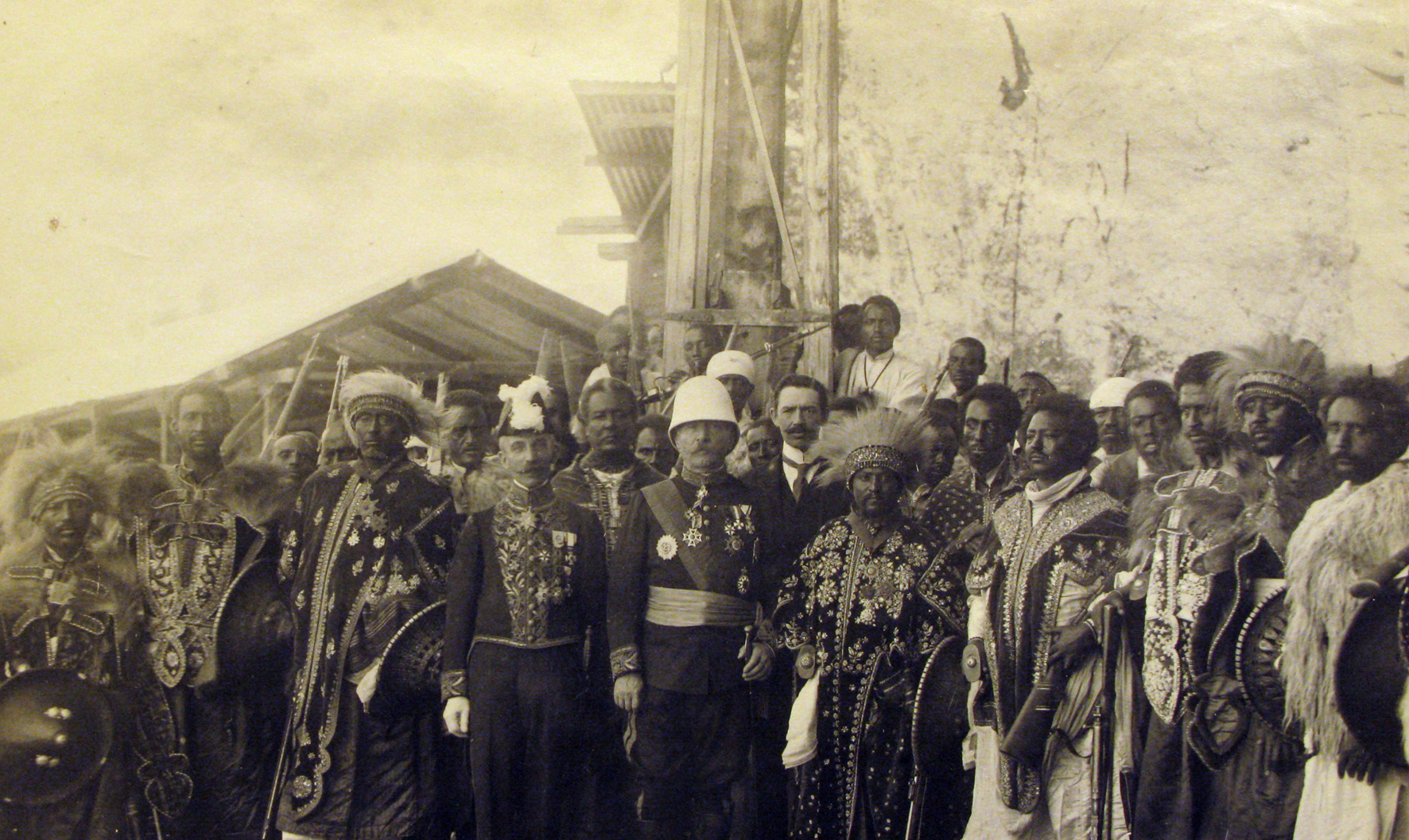 French diplomats and Abessinian officials at the beginning of the 1920's. Maurice de Coppet at the front the fourth from left.